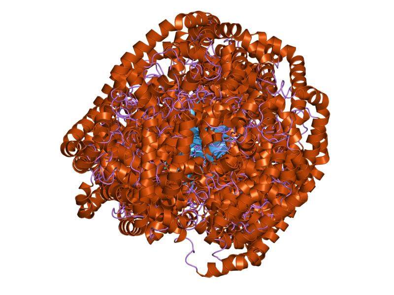 Cartoon representation of the molecular structure of protein registered with 1g7o code.